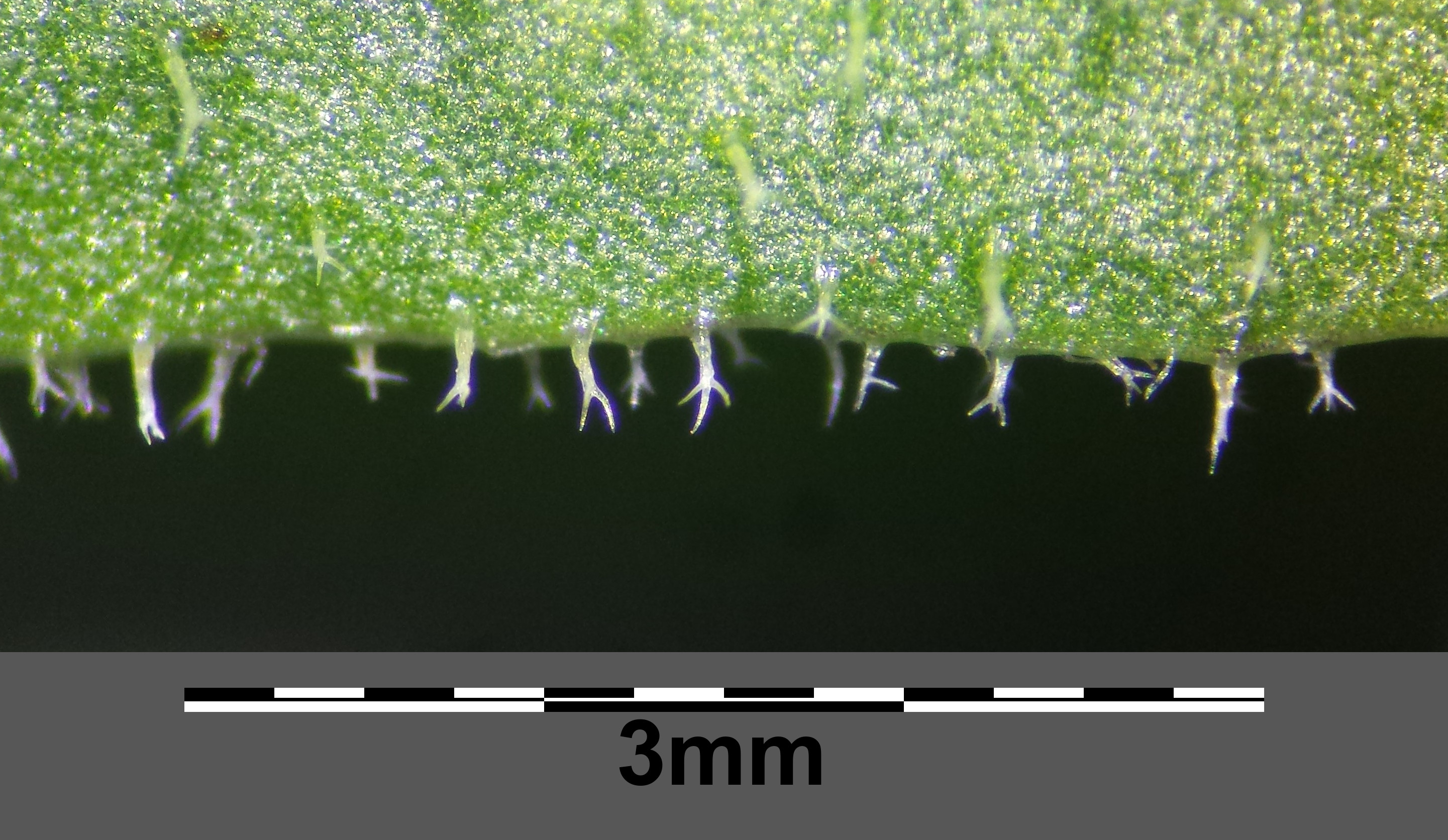 Edge of leaf with long-stalked 2- to 3-fid hairs Taxonym: Leontodon hispidus ss Fischer et al. EfÖLS 2008 ISBN 978-3-85474-187-9 Location: Stammersdorfer Zentralfriedhof cemetery, Vienna-Floridsdorf - ca. 160 m a.s.l. Habitat: ruderal area